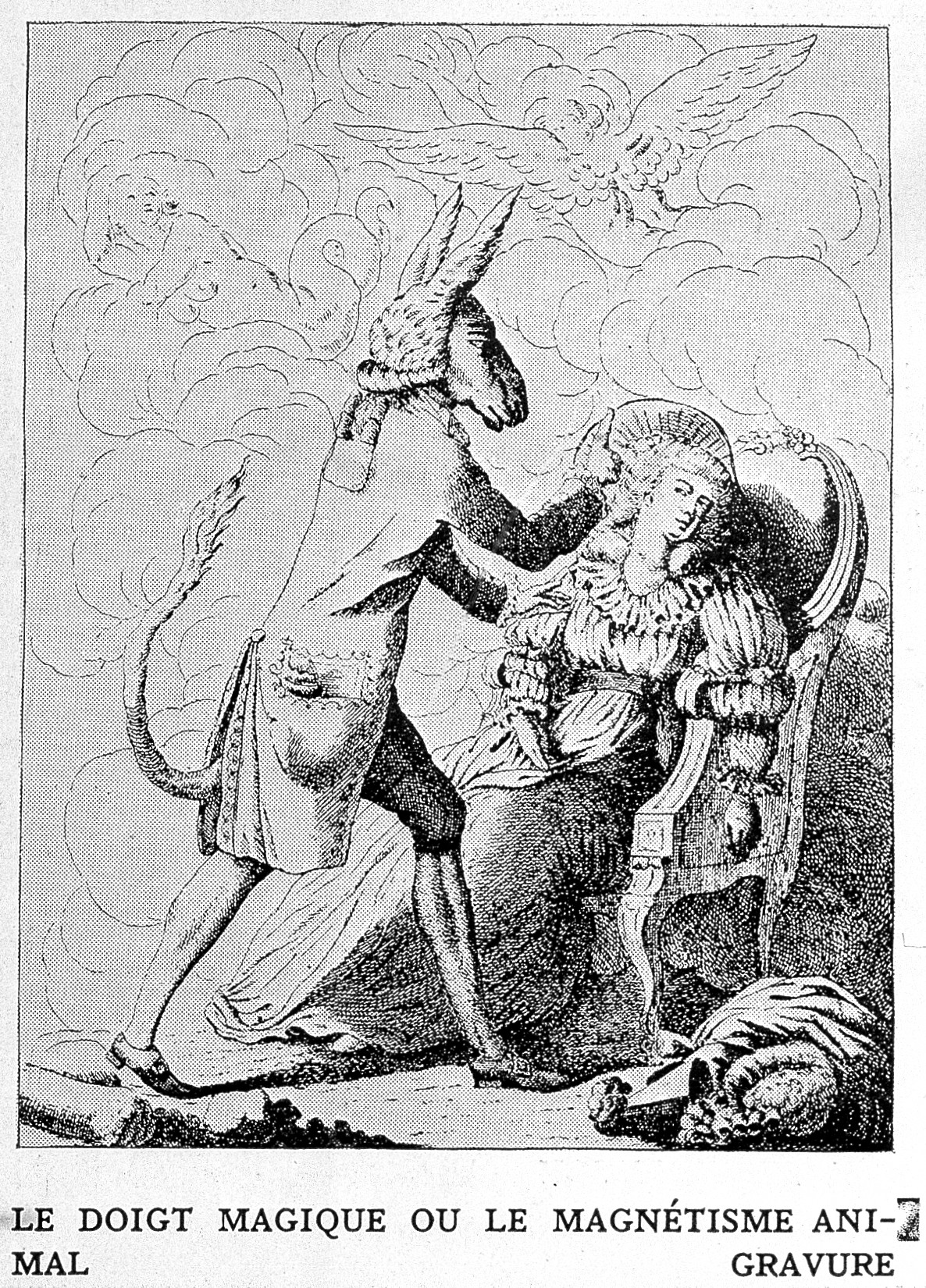 'Le doigt magique ou le magnetisme animal'. The doctor, having discarded his wig and cloak hypnotises the woman in the guise of Bottom from 'Midsummer Might's Dream'. One hand strokes the patient while with a finger of the other she is hypnotised. General Collections Keywords: hypnotism; Magnetism; Mesmerism; Satire; Medicine in Art; Physicians